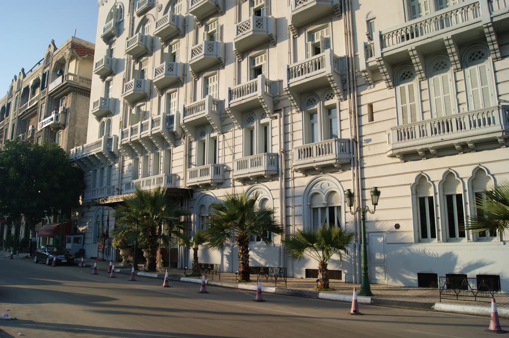 We stayed here in Feb 2012 on Active Ciitzens visiits. Previous guests include Winston Churchil, Agatha Christie, Al Capone, Gerald Durell and us!!!!